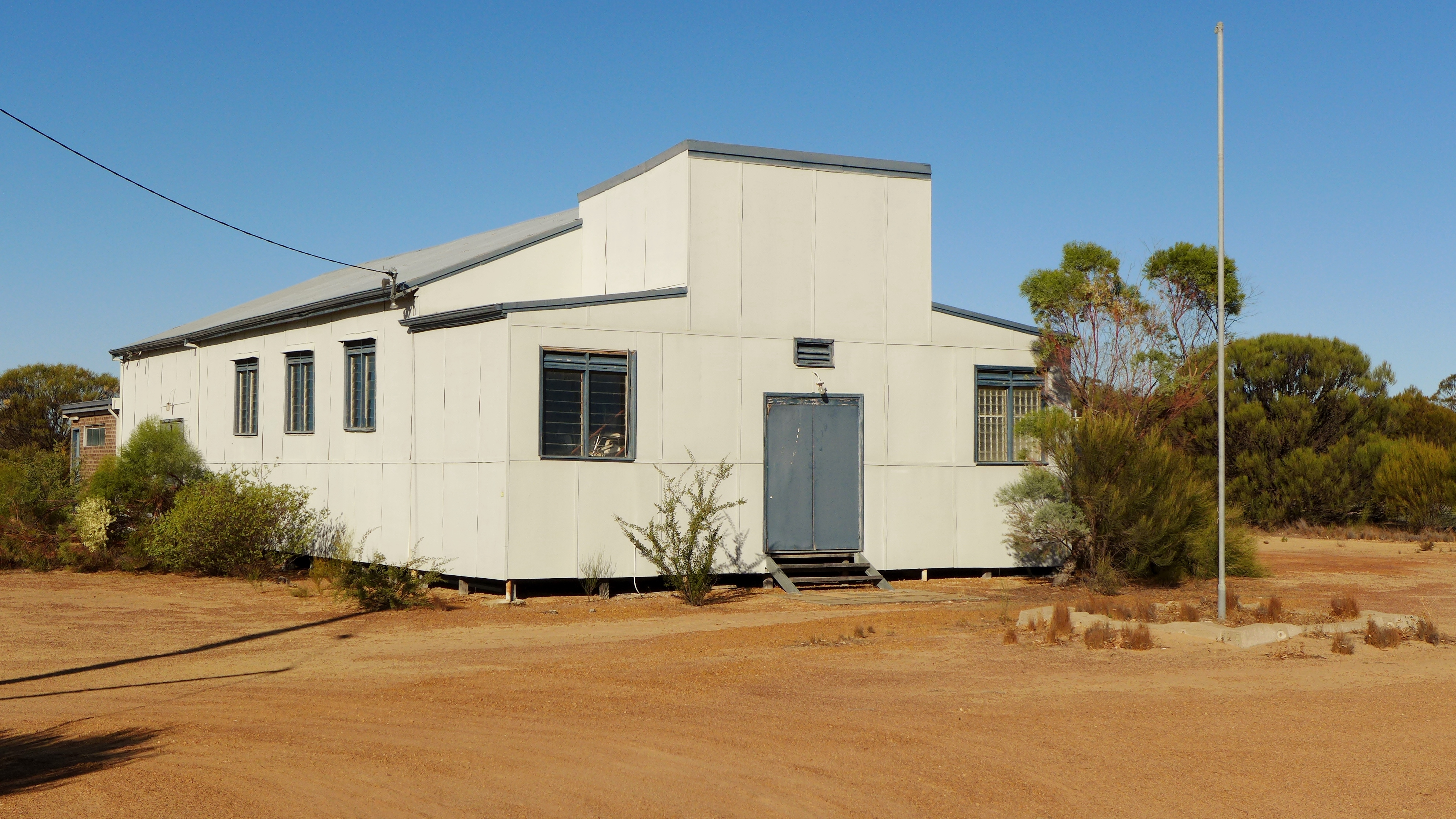 View of the public hall at Burakin, Western Australia.